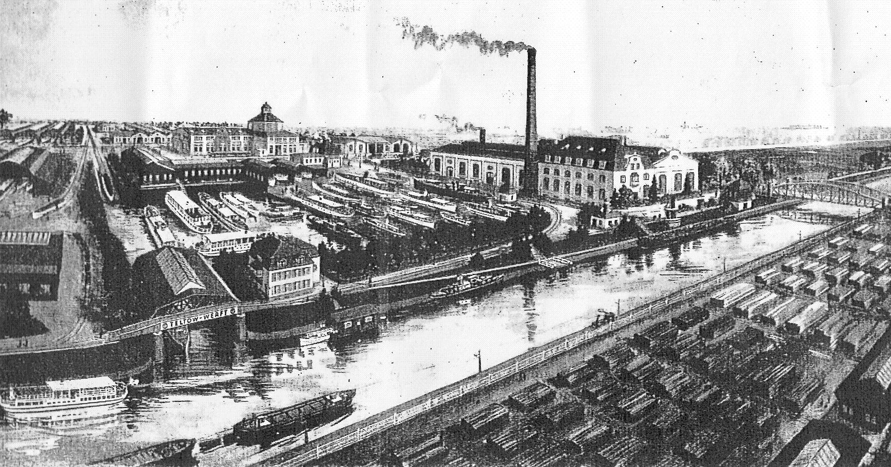 Former Teltow-Werft (shipyard and maintenance yard for the tow-locomotives) at the Teltowkanal (canal). In the west borders Kleinmachnow (Brandenburg). In 1997 there was built the senior residence Augustinum Kleinmachnow. The shipyard with some listed buildings and the former port belong to Berlin-Zehlendorf. Both bridges in the picture are former tow-bridges. The right one, the former Teltow-Werft-Bridge, was also used by pedestrians.